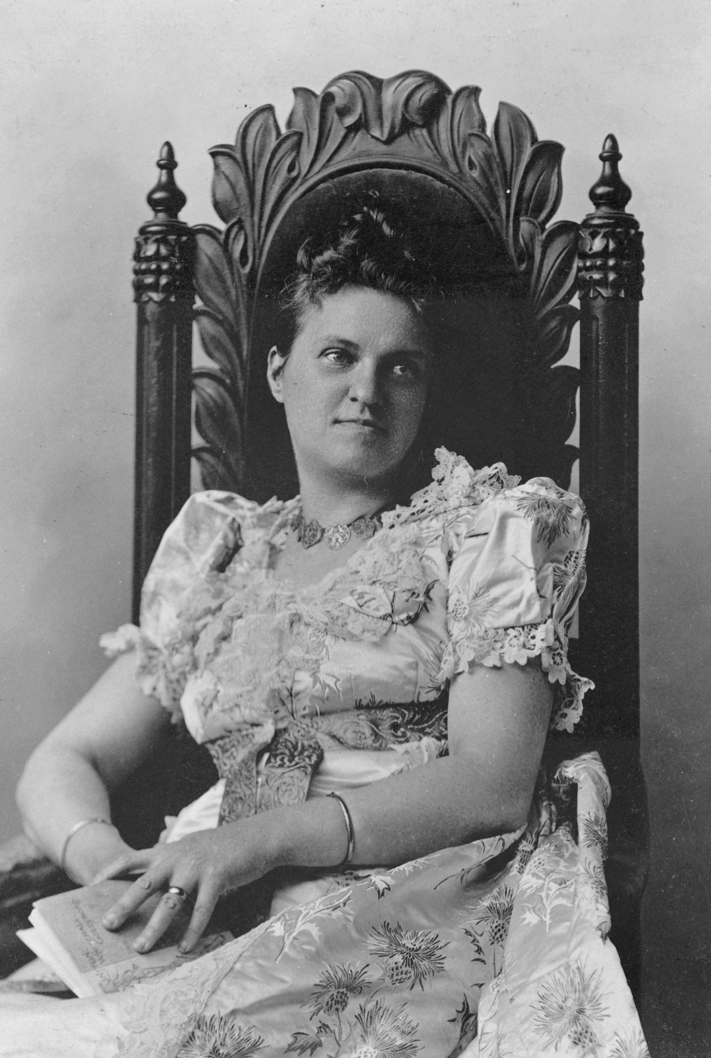 Anna Katherine Green, three-quarter length portrait, seated, facing slightly right